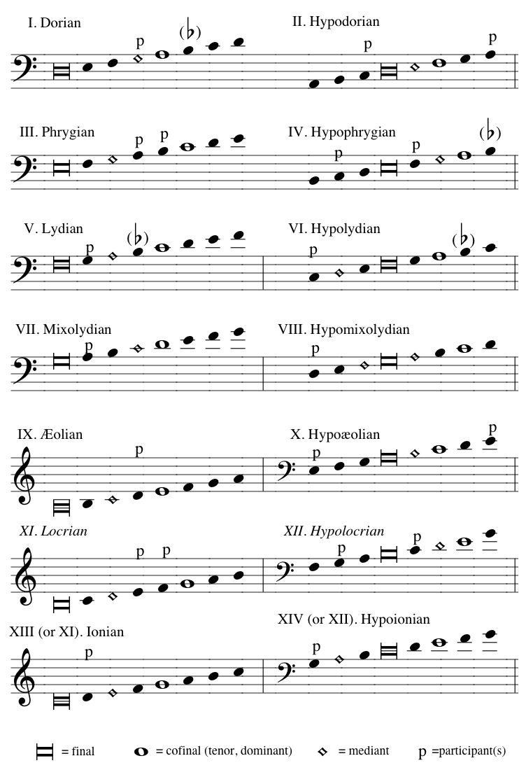 The 14 plainchant modes, showing the finals, cofinals, mediants, and participants, according to W. S. Rockstro, "Modes, the Ecclesiastical", A Dictionary of Music and Musicians (A.D. 1450–1880), by Eminent Writers, English and Foreign, edited by George Grove, D. C. L. (London: Macmillan and Co, 1880), 2:340–43.